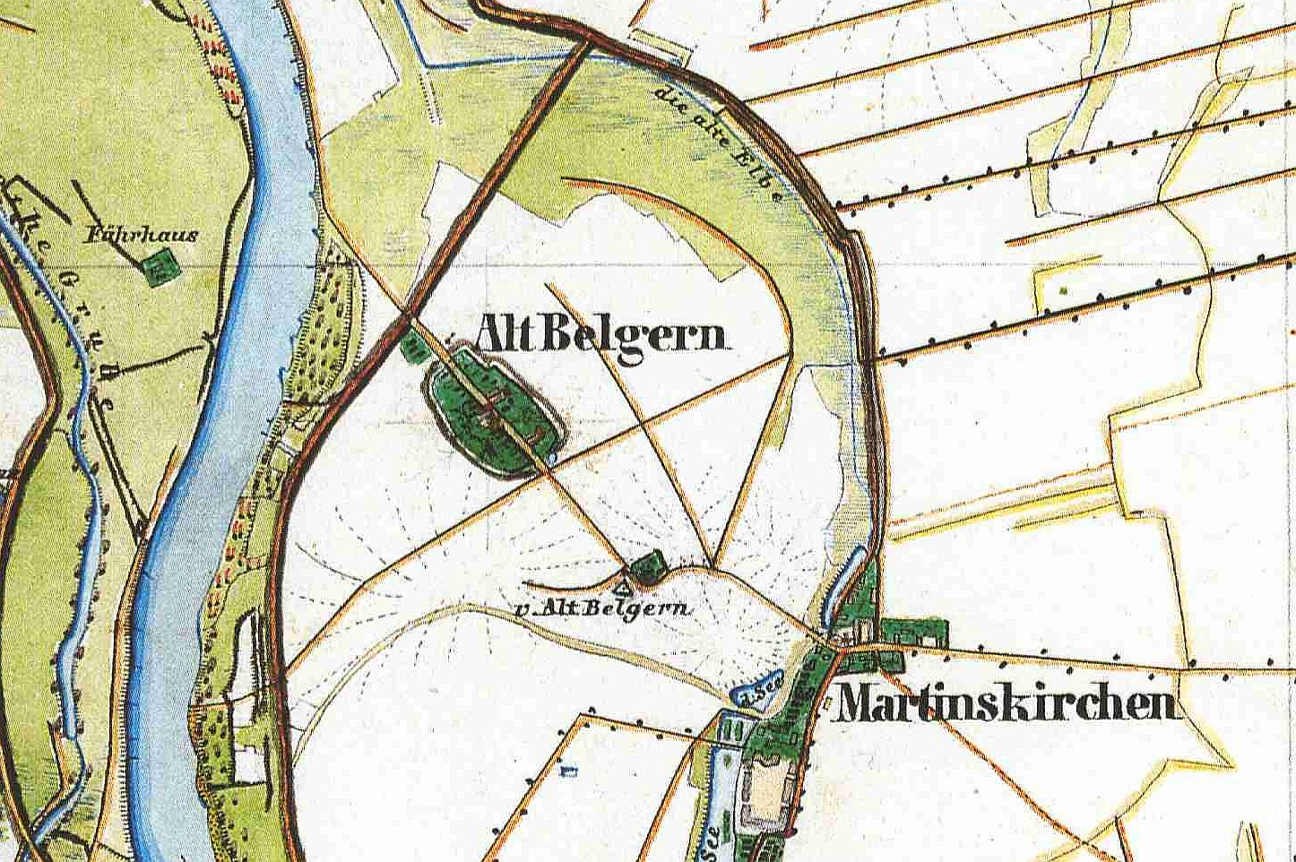 Altbelgern, Lkr. Elbe-Elster, Brandenburg, Germany, detail from the Urmesstischblatt Sheet 4545 Mühlberg, drawn in 1847